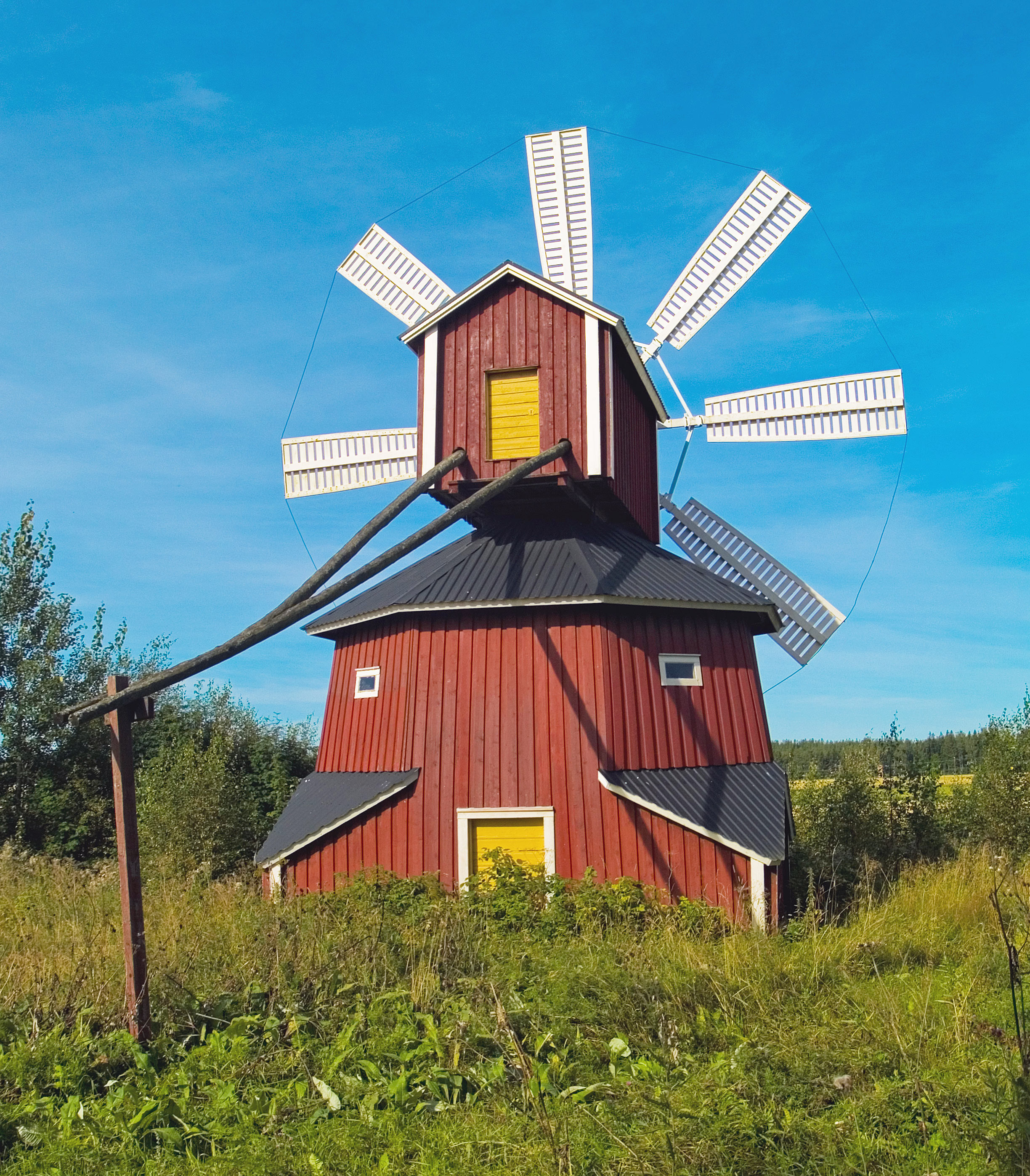 Windmill in Luopajarvi village, Jalasjarvi, Finland.